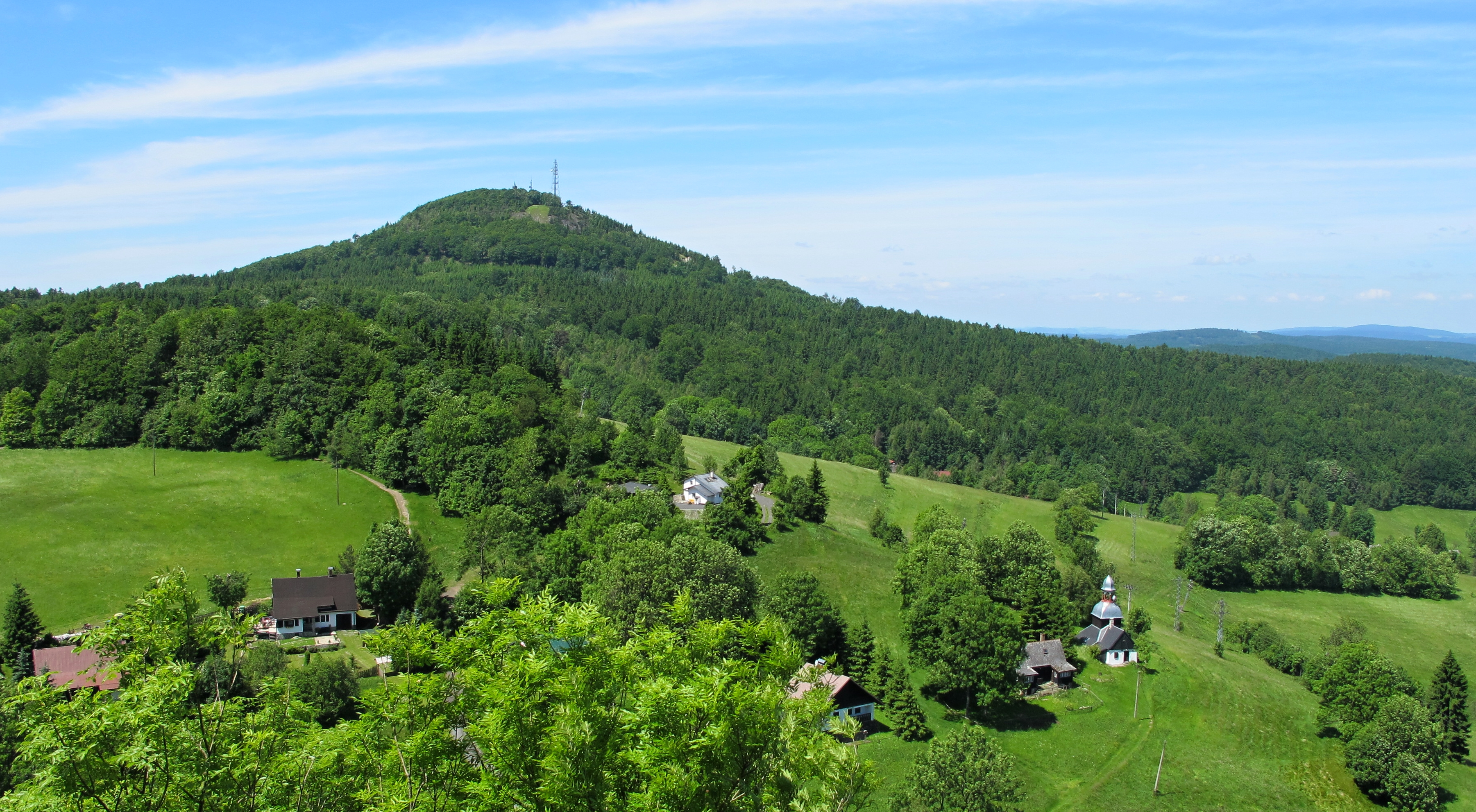 View from ruins of the Tolštejn Castle towards the hill Jedlová, landscape park Lužické hory in Děčín District